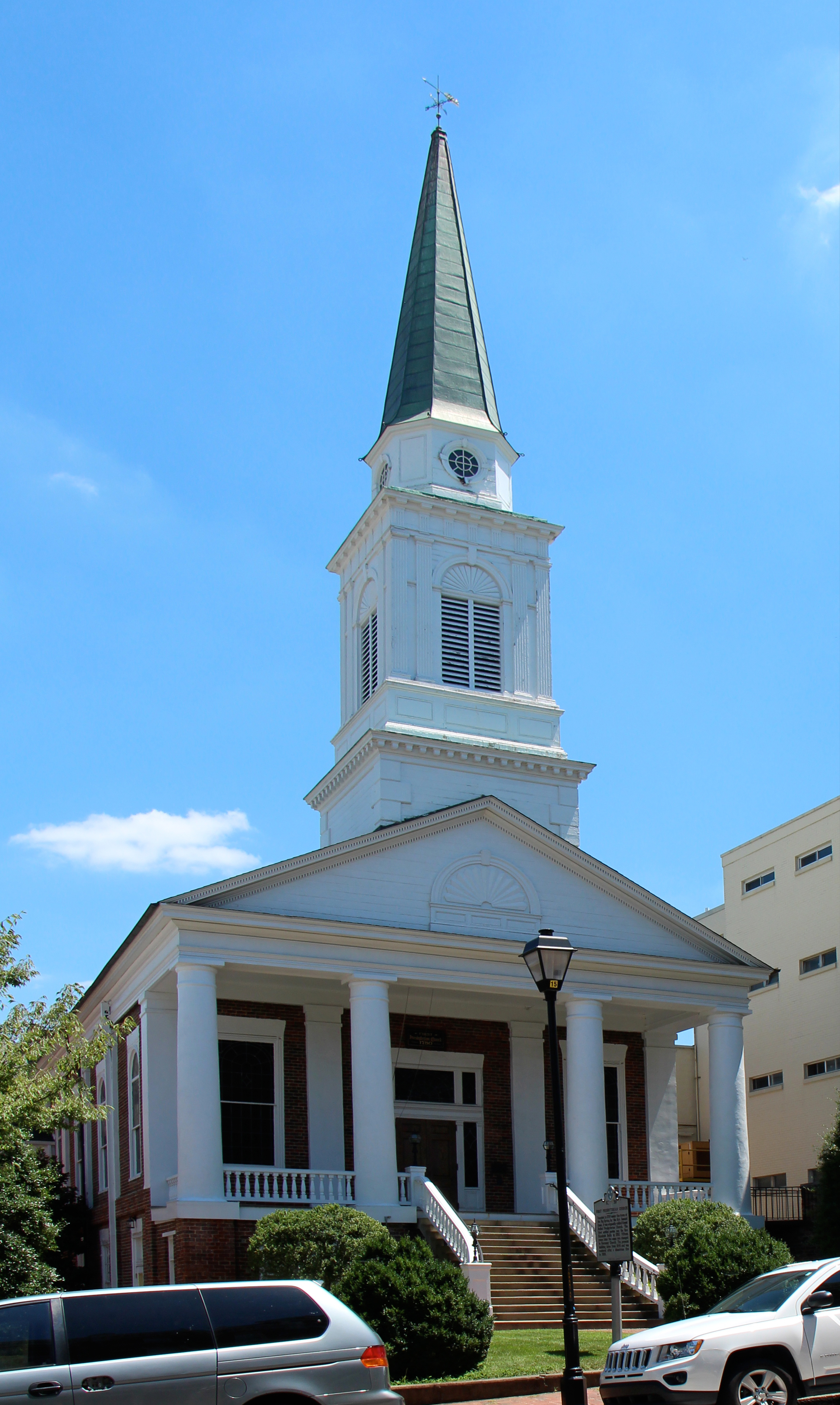 First Presbyterian Church, Greeneville, TN